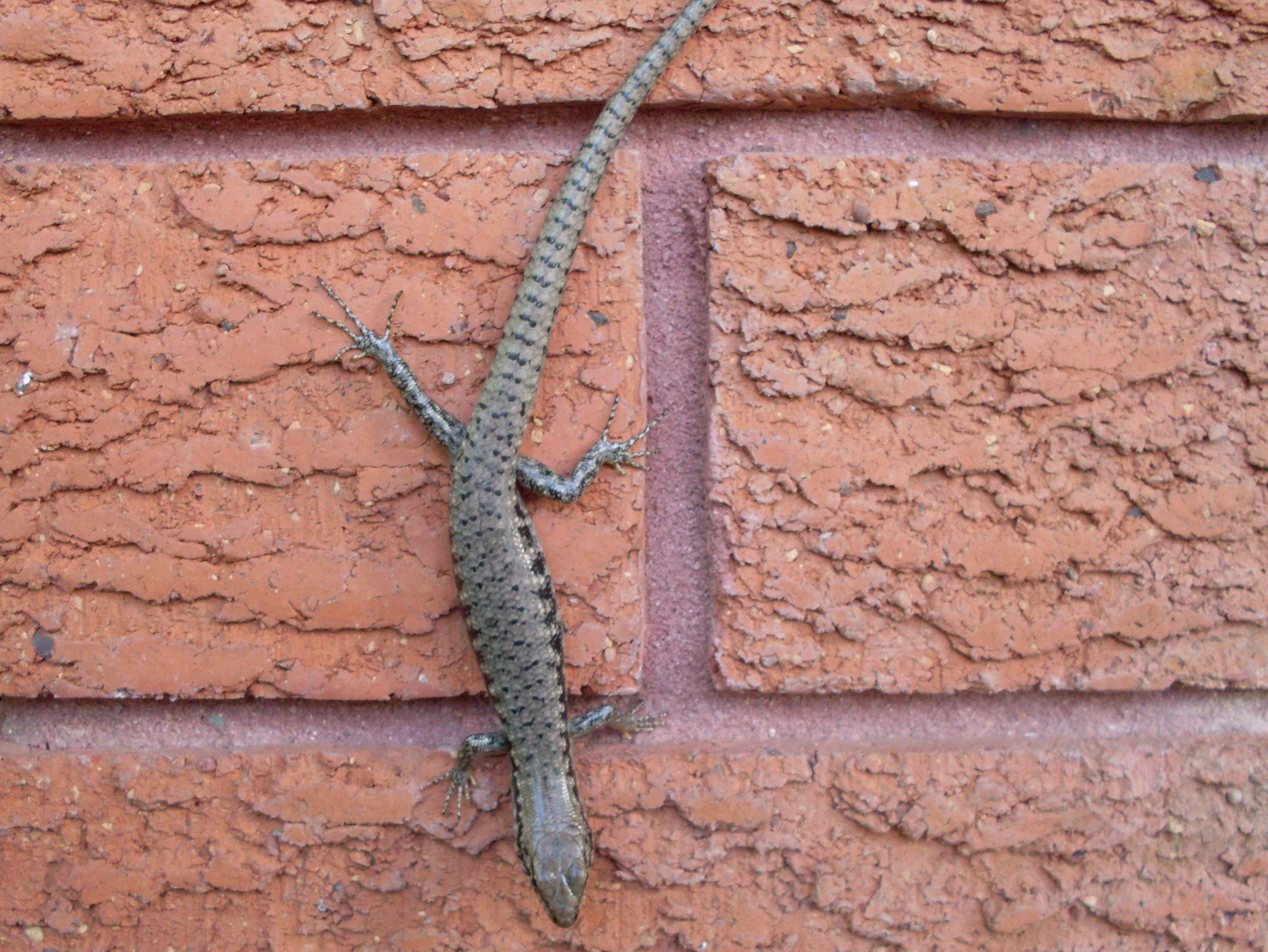 Possibly a Barred-sided Skink, Eulamprus tenuis. Como, NSW Australia, March 2009. The broad black upper lateral stripe is partially visible could be notched or broken into bars. The tail has many irregular narrow dark bands. The bricks are 75 mm high, which gives the lizard an SVL (snout-vent length) of about 71mm.